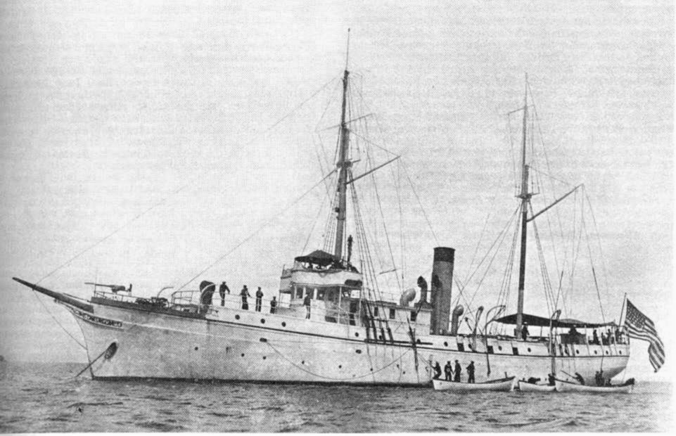 Gopher at anchor, circa 1906, location unknown.